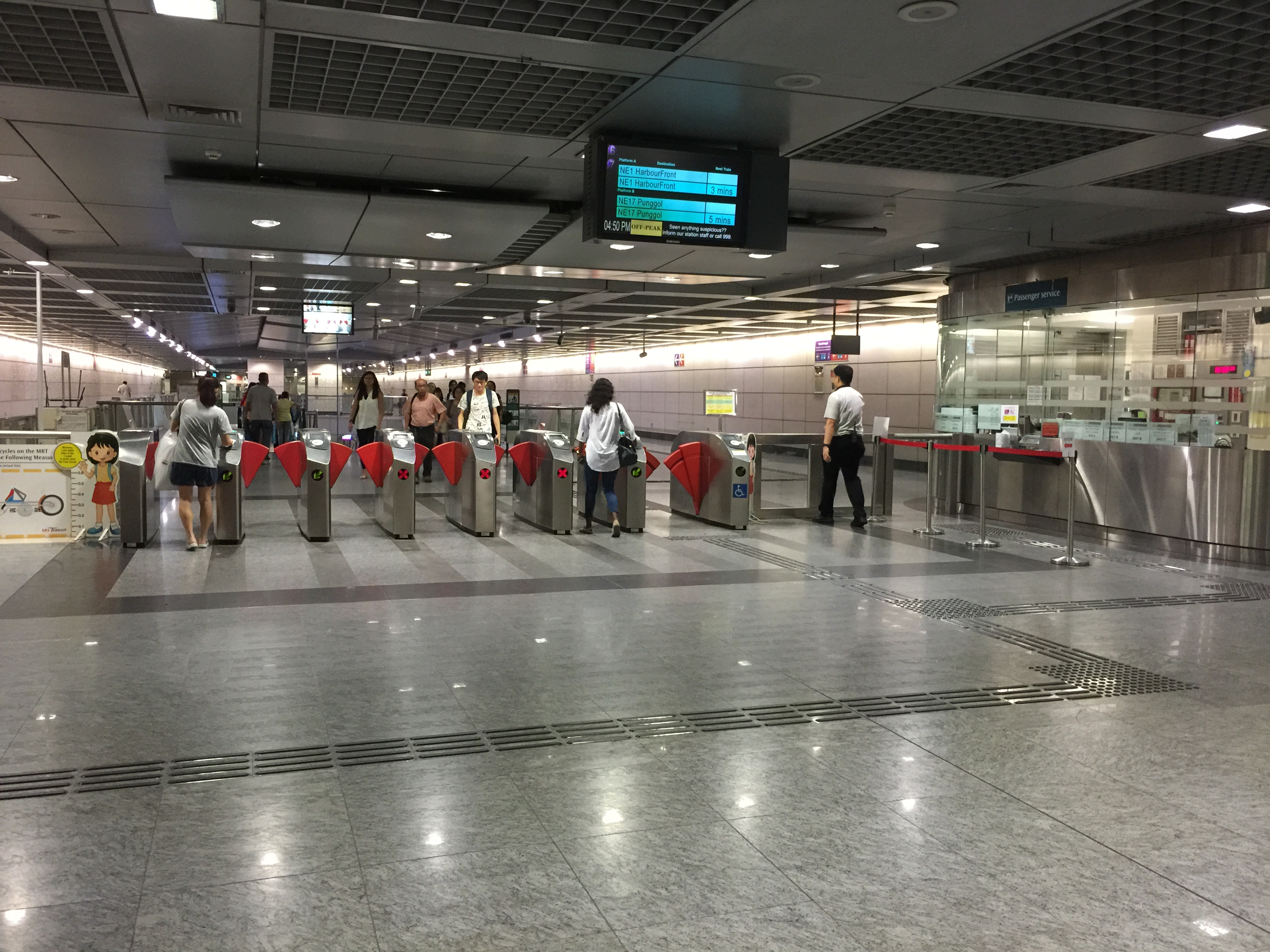 Hougang MRT Station - Concourse Level on the North East Line.